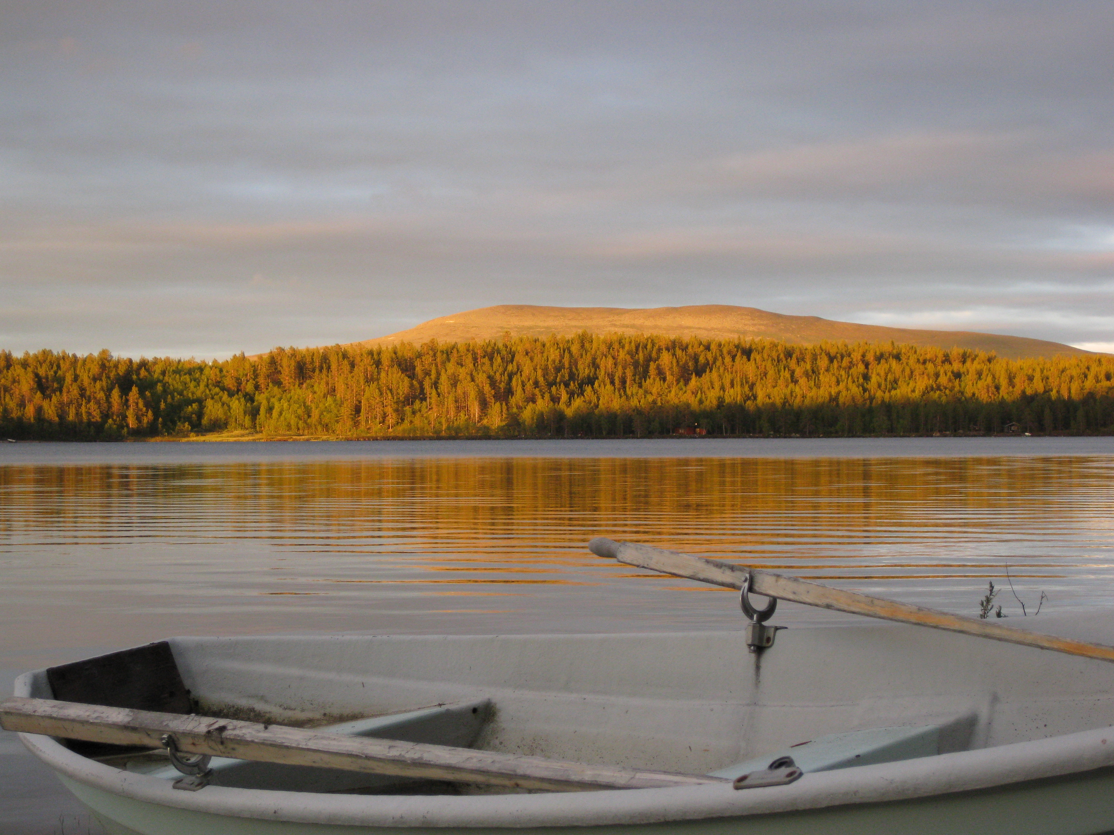 Midnight sun shining on Ounastunturi across Ounasjärvi in Enontekiö, Finland, in June 2009.